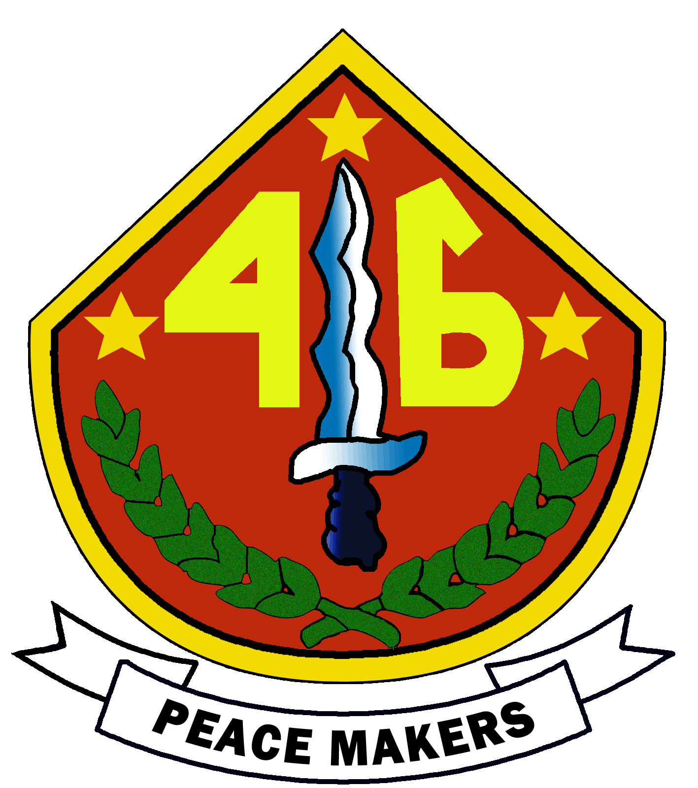 The official seal of the 46th Infantry Battalion, 8th Infantry Division, Philippine Army.